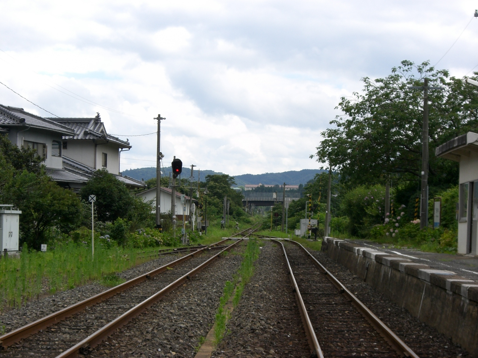 Looking toward Tōjō Station from the platform at Yagami Station in Niimi, Okayama Prefecture, Japan. Licensing Originally uploaded to the Japanese Wikipedia by Mitsuki-2368 under GFDL.